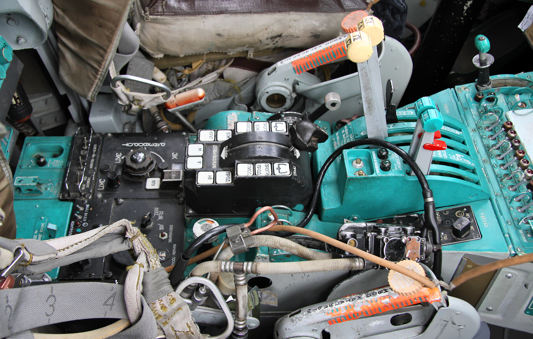 Cockpit of Tupolev Tu-22M3 bomber